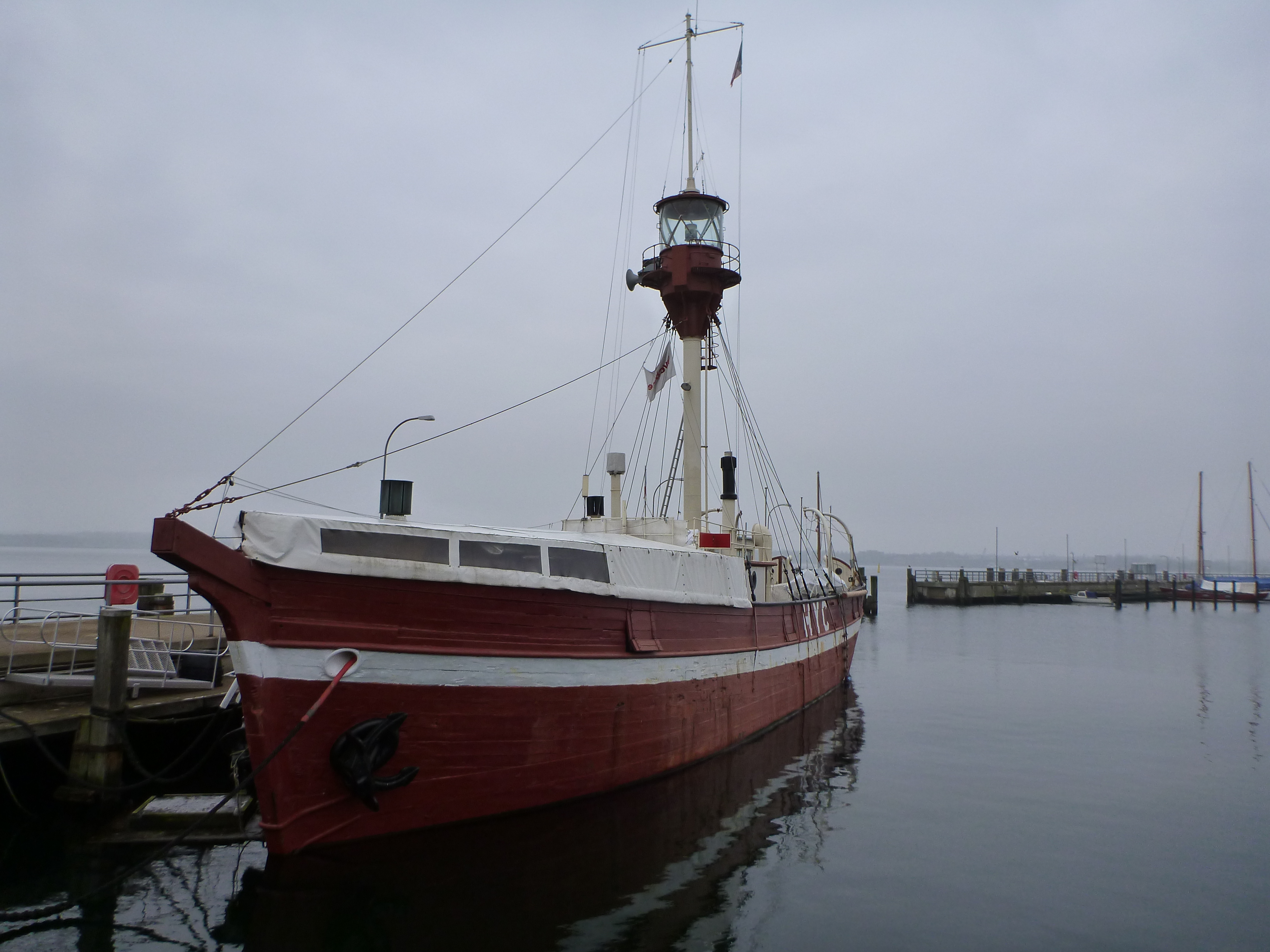 Frontview of lightship Laesoe Rende